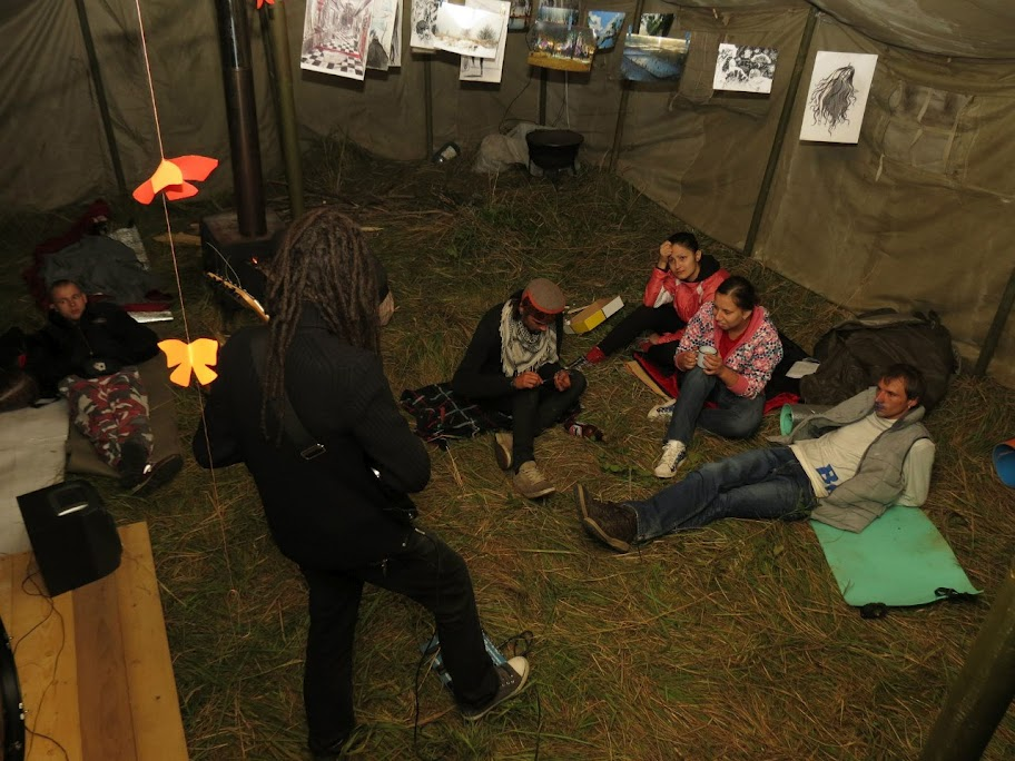 This is the shot from Art-Picnic "ForTrueFeel" Kalush, Ukraine